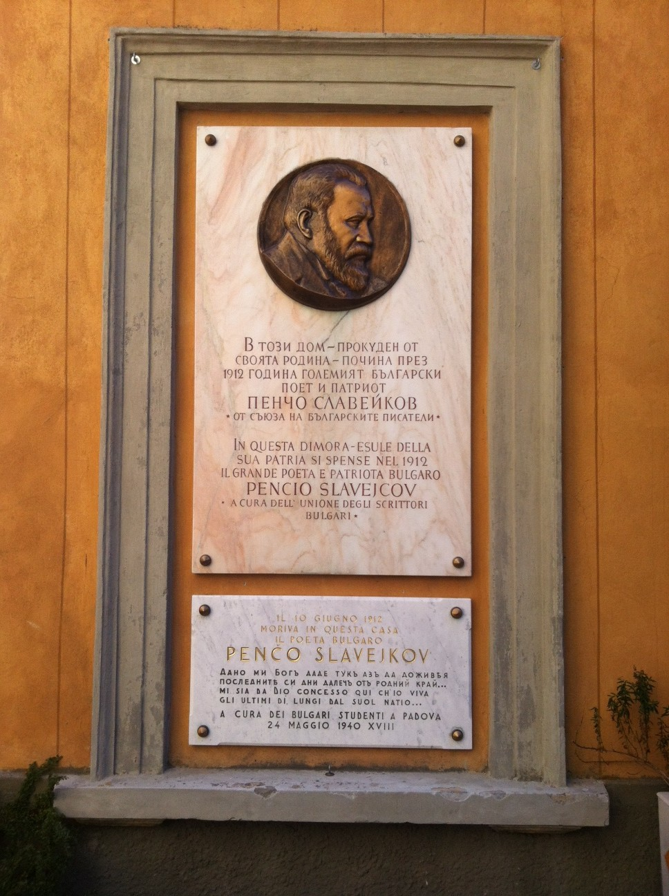 Penco Slavejkov memorial plate on his house in Brunate, Como